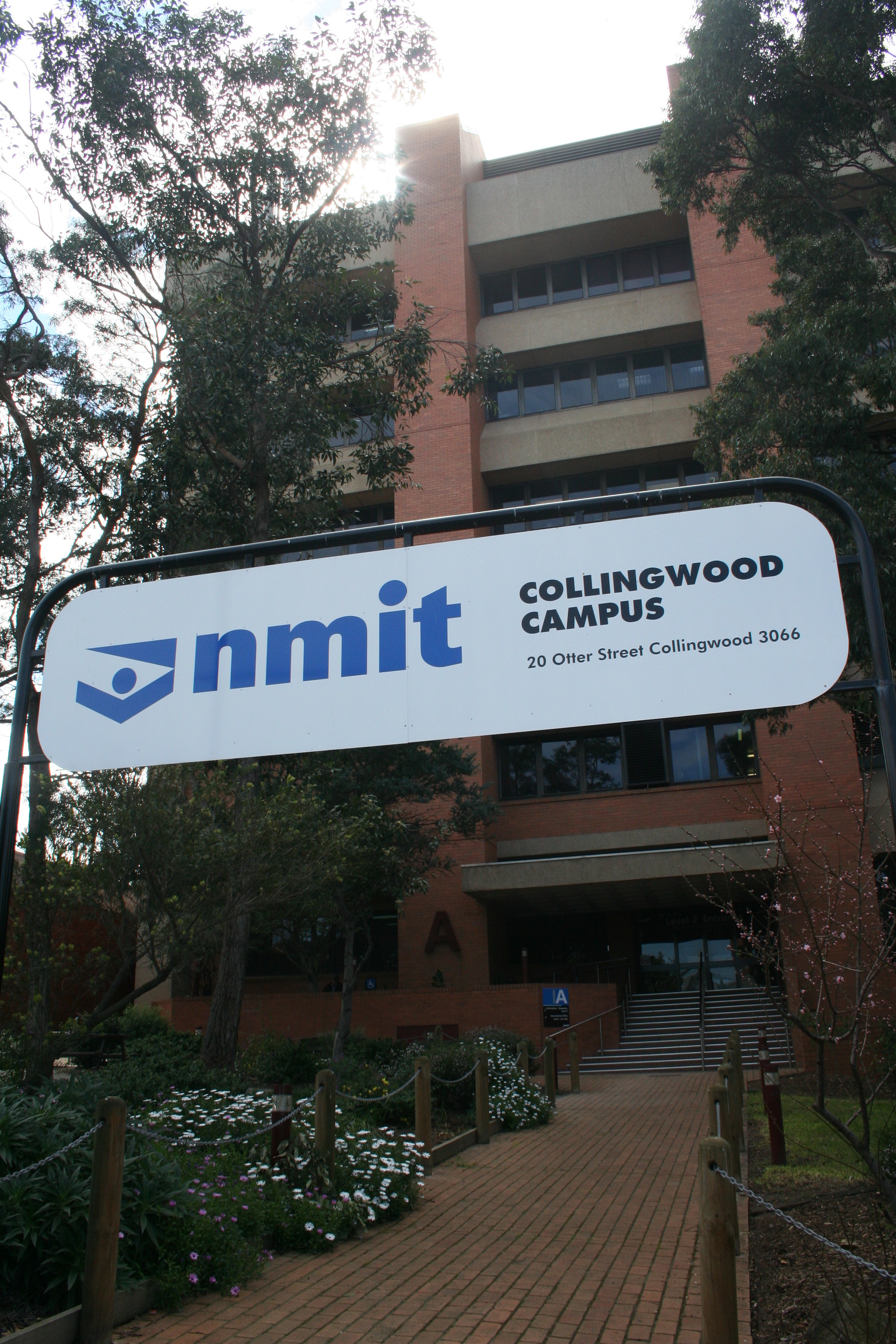 Entrance to Building A of Collingwood Campus of NMIT